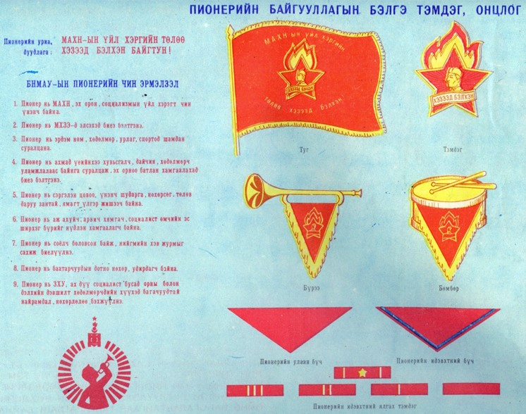 Equipments of the Mongolian Pioneers.